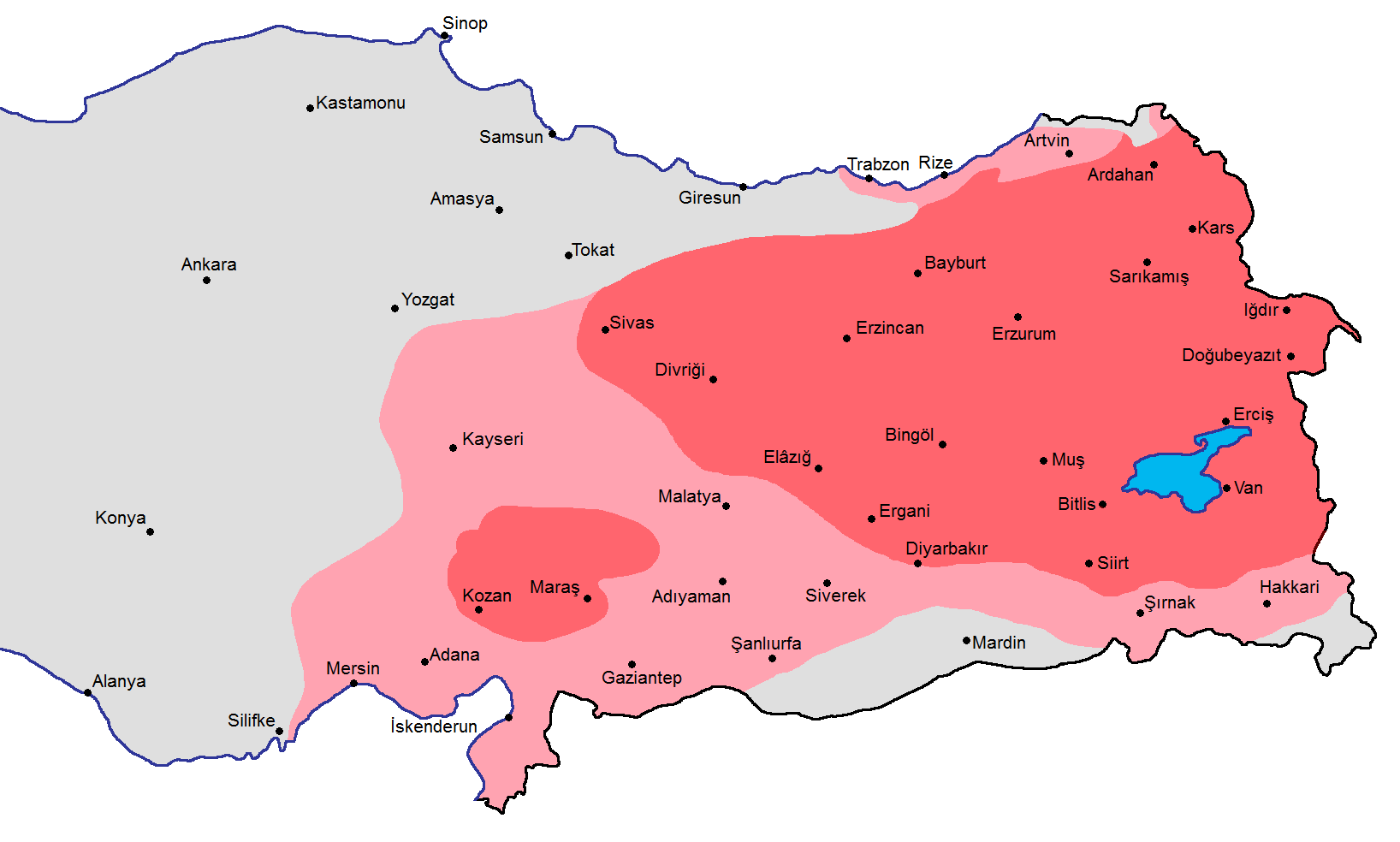 A map showing the distribution of the Armenians in early 17th century with the current borders of Turkey: red (majority), pink (significant presence) source: State Committee of the Real Estate Cadastre of the Republic of Armenia (2007). Հայաստանի Ազգային Ատլաս (National Atlas of Armenia), Yerevan: Center of Geodesy and Cartography SNPO, p. 102 see map